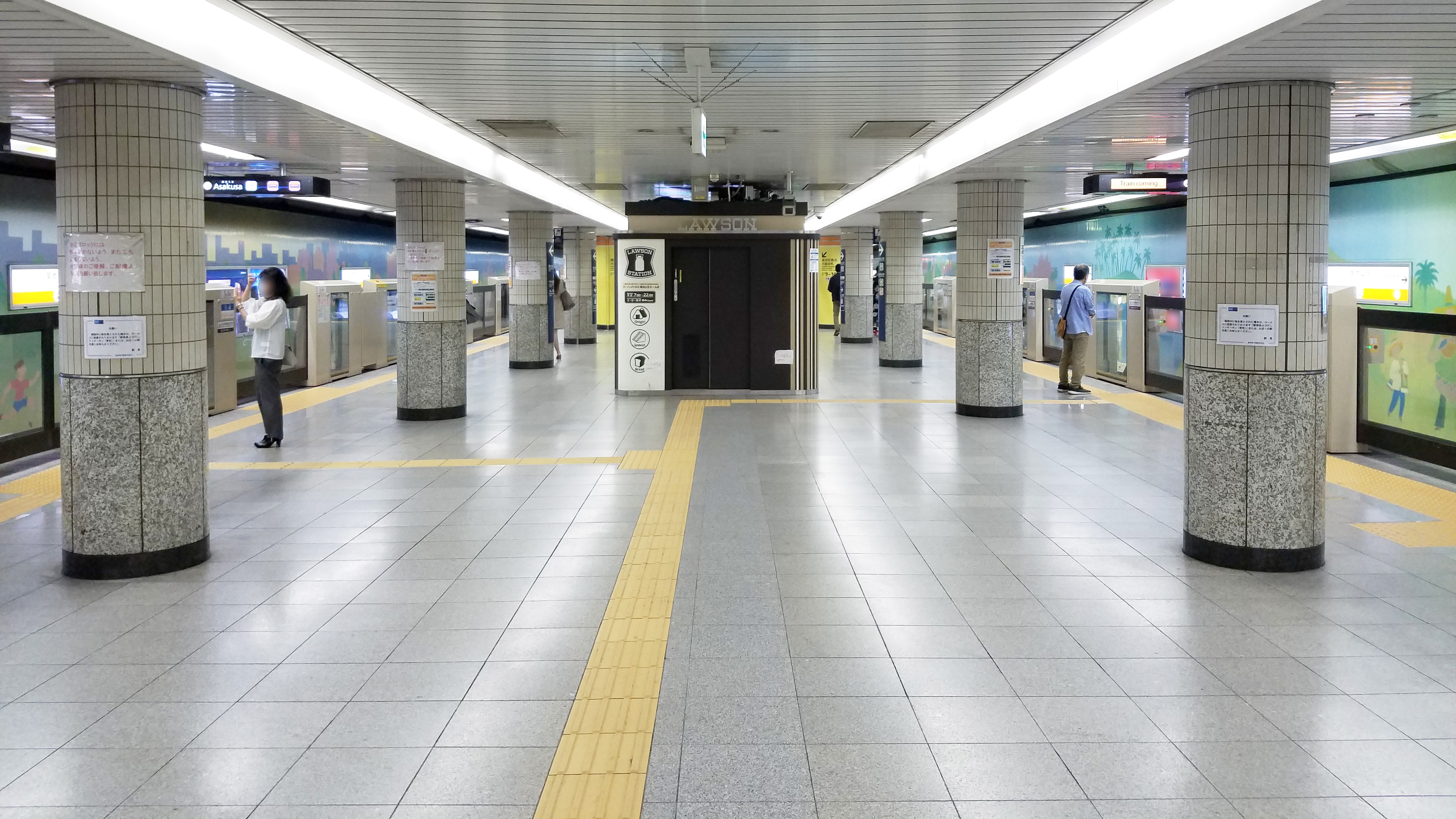 The platform at Tameike-Sannō Station on the Tokyo Metro Ginza Line in Chiyoda city, Tokyo, Japan